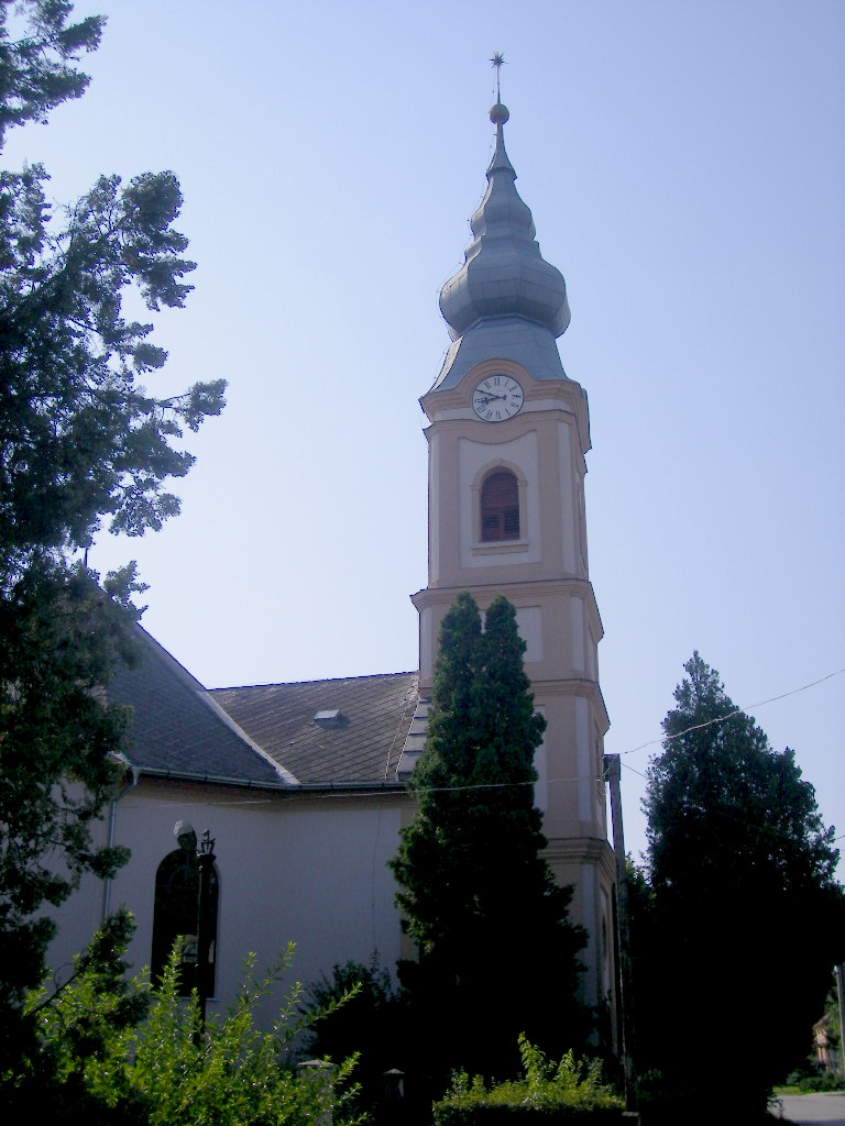 Reformed ChurchSlovenčina: Kalvínsky kostol, Búč